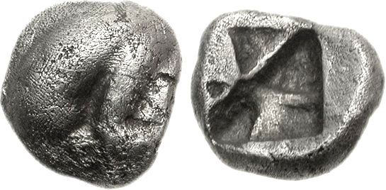 PHLIASIA, Phlious. Late 6th-early 5th centuries BC. AR Obol or 1/12 Stater (1.07 g). Human leg bent to right / Incuse square divided into six irregular compartments.